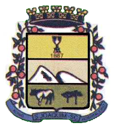 Coat of arms of São Joaquim, Santa Catarina.